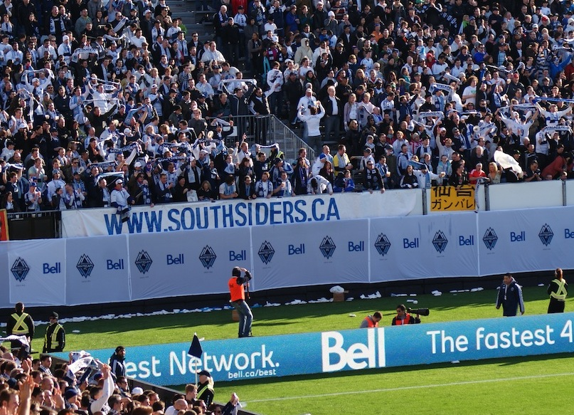 Whitecaps FC supporters celebrating a 4-2 victory at Empire Field during inaugural game vs Toronto FC.